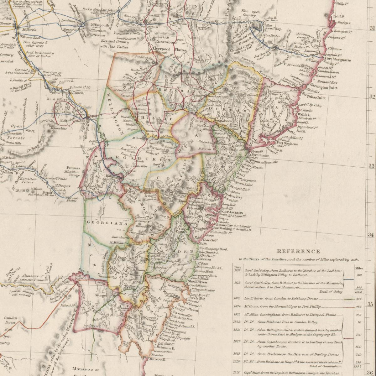 Map of Southeastern Australia showing explorers routes for the period 1817-1830 and the nineteen counties in New South Wales. Relief shown by hachures.